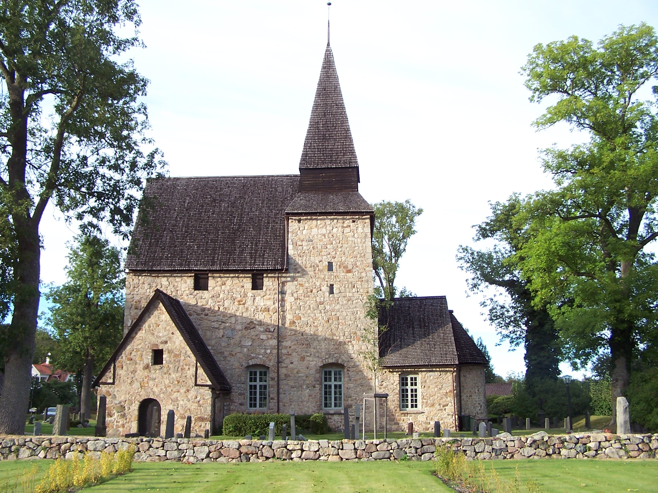 Hossmo church, Sweden